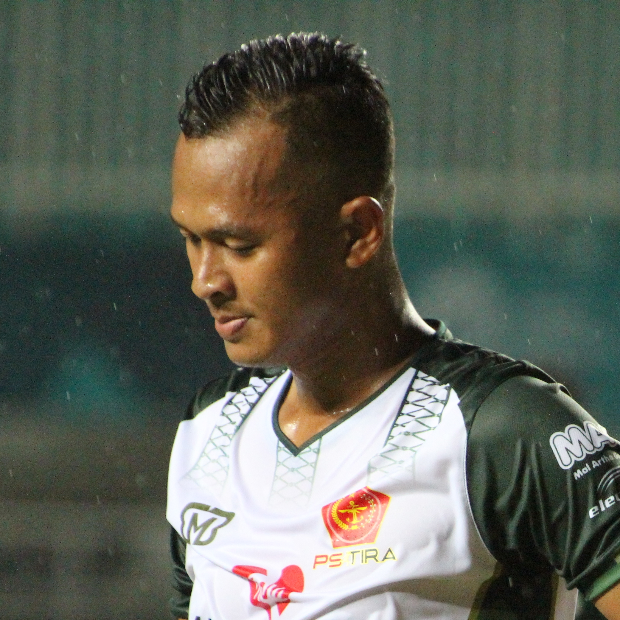 Lord Sansan